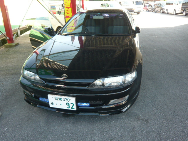 Toyota curren